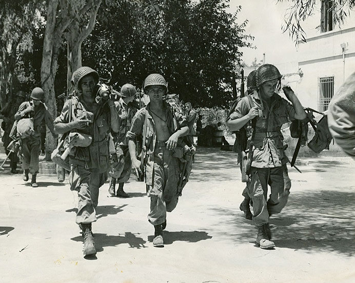 Members of the 504th Parachute Infantry Regiment patrol Sicily after capturing the island from Germany in early July, 1943.